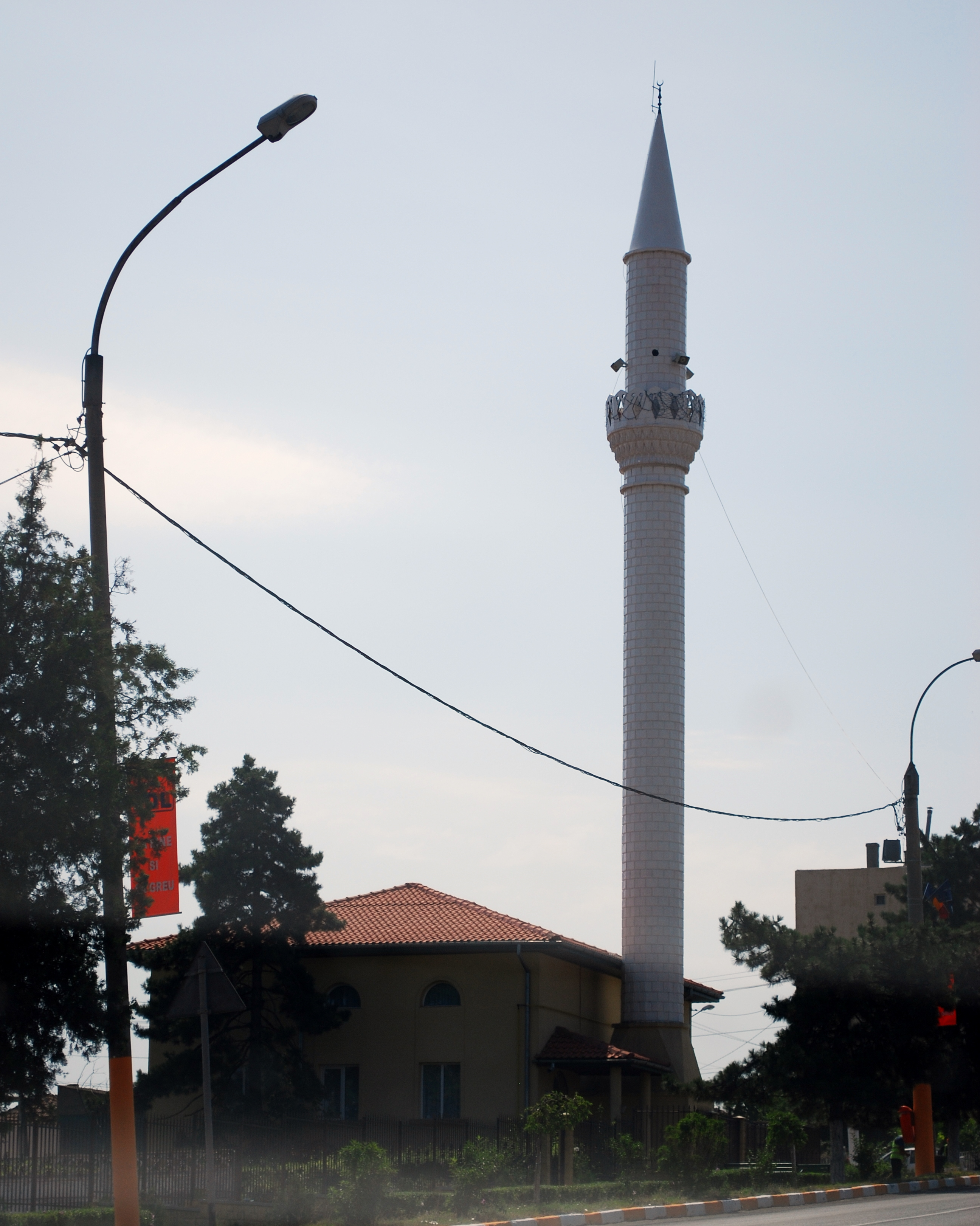 The mosque in Ovidiu, Constanţa County, Romania